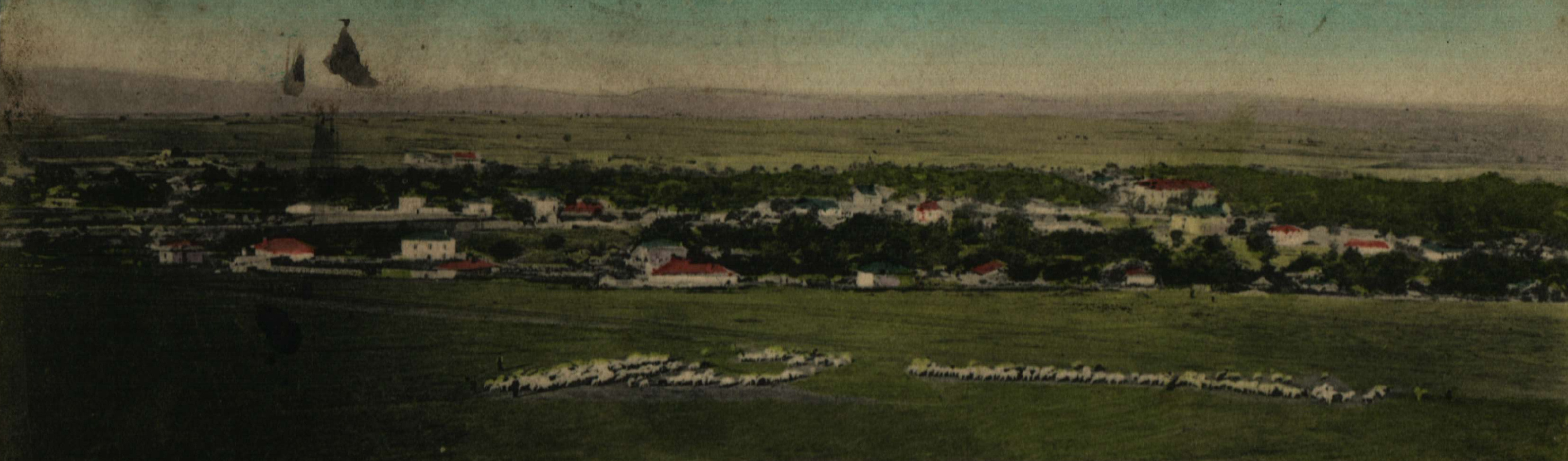 Pavlikeni, Bulgaria